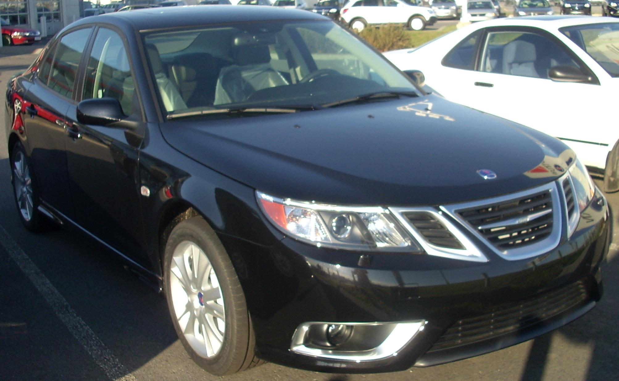 2008 Saab 9-3 photographed in Montreal, Quebec, Canada.